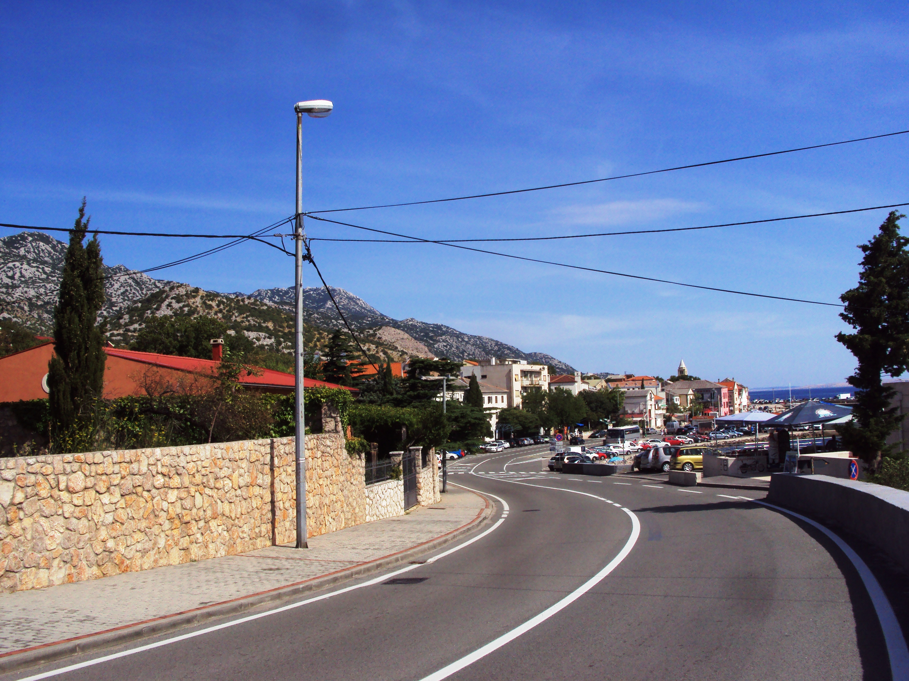 Town of Karlobag in Croatia